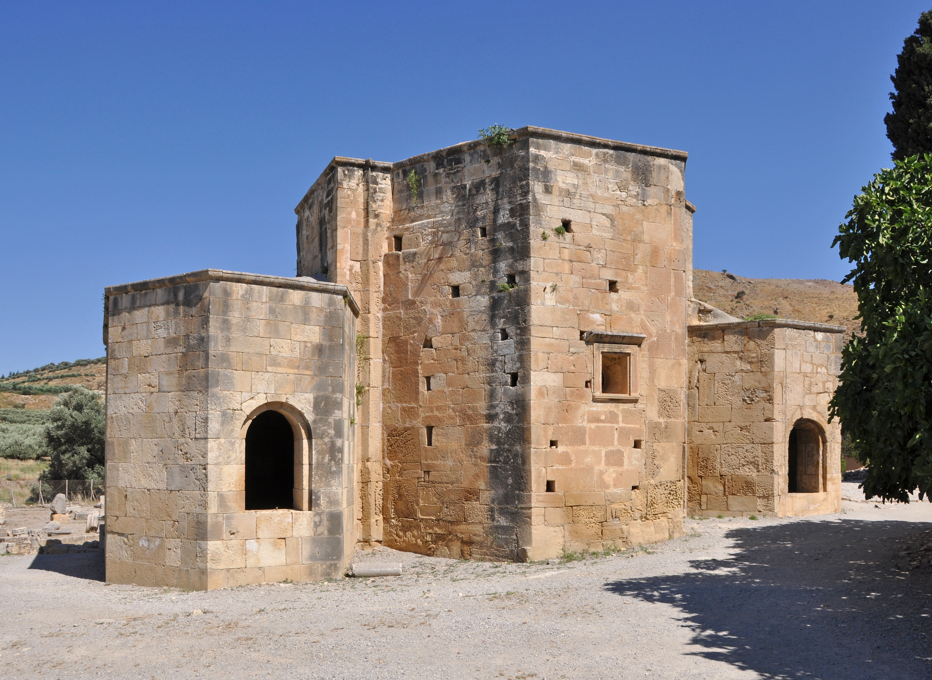 Gortys (Crete, Greece): Agios Titus Basilika